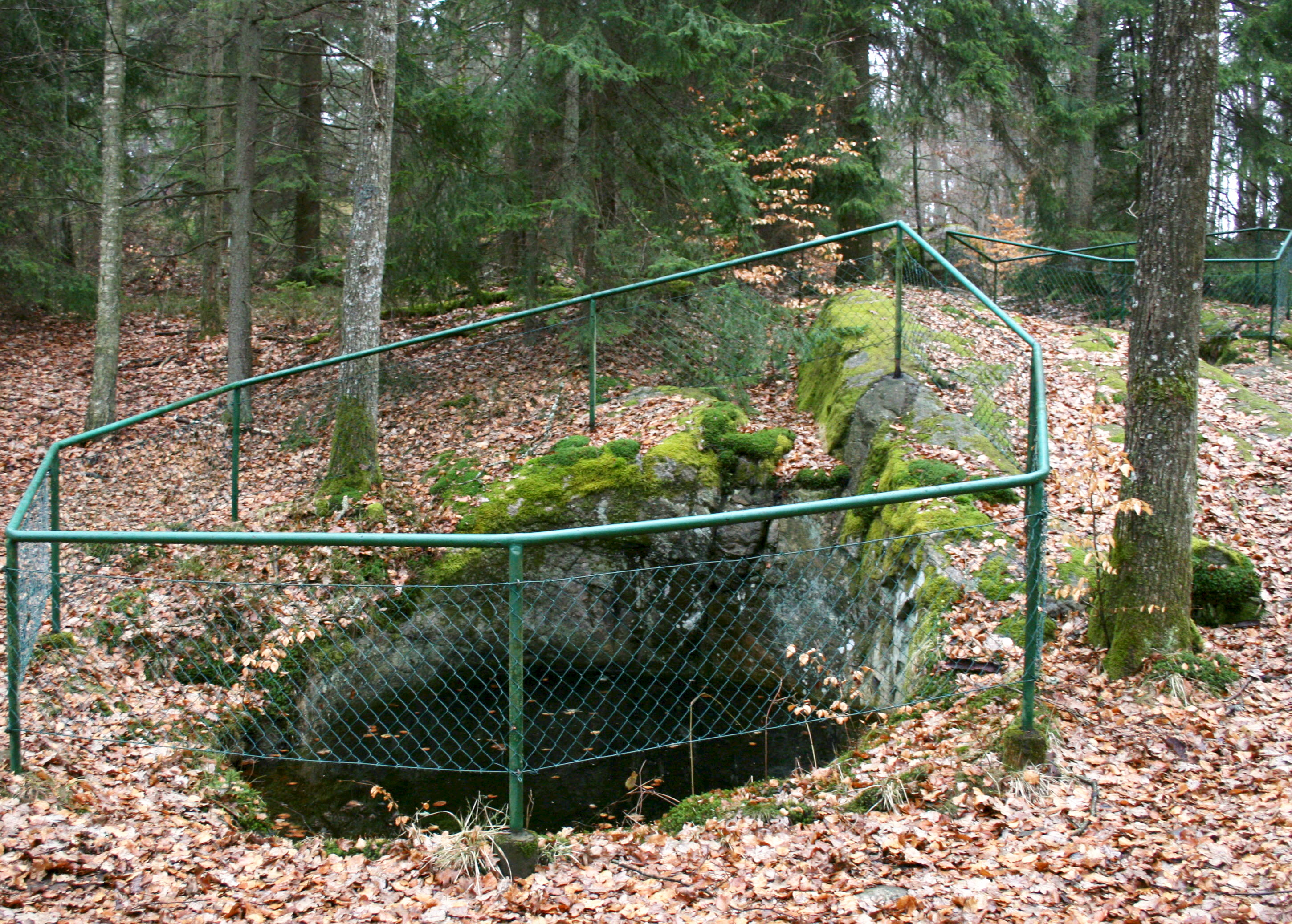 Giant's kettles in Tararp, Blekinge, Sweden